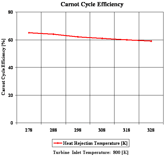 Gordan Feric, Engineering Software